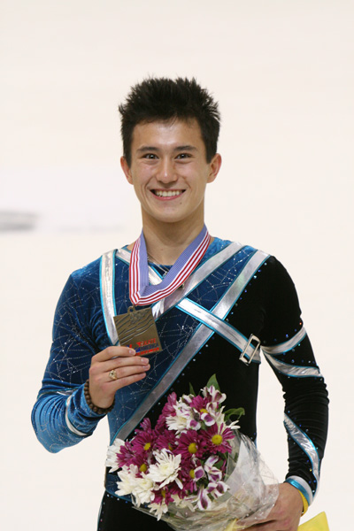 2007 Skate America - Patrick Chan